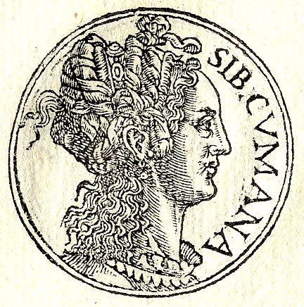 Sibylla-Cumana was the priestess presiding over the Apollonian oracle at Cumae, a Greek colony located near Naples, Italy.